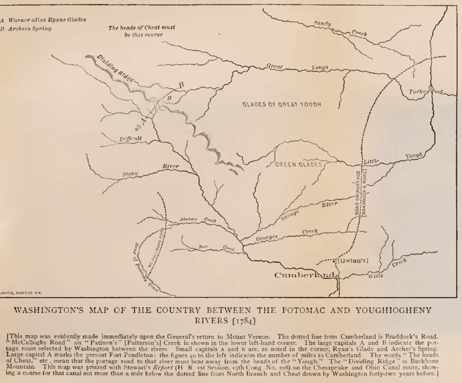 Washington's Map of the Country between the Potomac and Youghiogheny Rivers 1784 Page 185 from the book: Washington and the West, Being George Washington's diary of September, 1784, kept during his journey into the Ohio basin in the interest of a commercial union between the Great Lakes and the Potomac River by Washington, George Published in 1905, The Century Co. (New York)